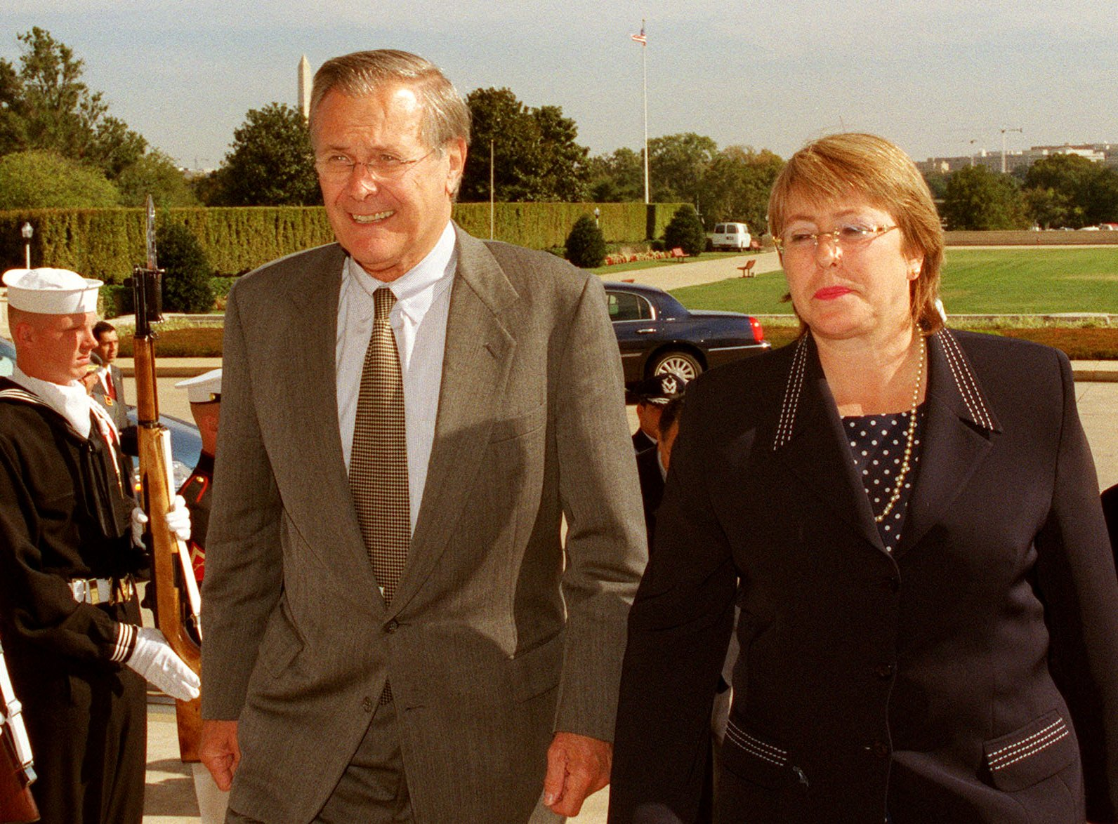 Secretary of Defense Donald H. Rumsfeld (left) escorts Minister of Defense Michelle Bachelet, of Chile, through an honor cordon and into the Pentagon. The two defense leaders met to discuss a broad range of security issues, both regional and global in scope.